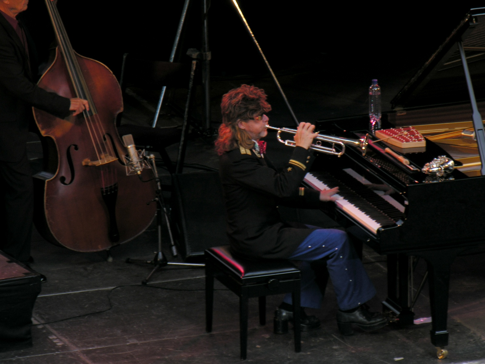 Helge Schneider 2007 Brake Together Tour, 2nd September 2007 at Naturtheater Steinbach-Langenbach, Germany, playing piano and trumpet simultaneously